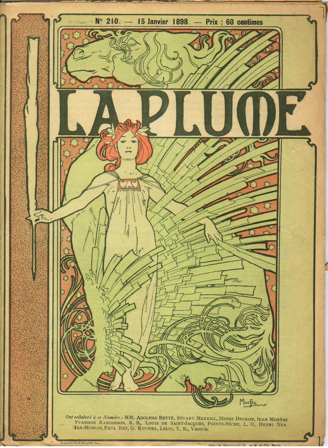 Cover composed by Mucha for the french literary and artistic Review La Plume.